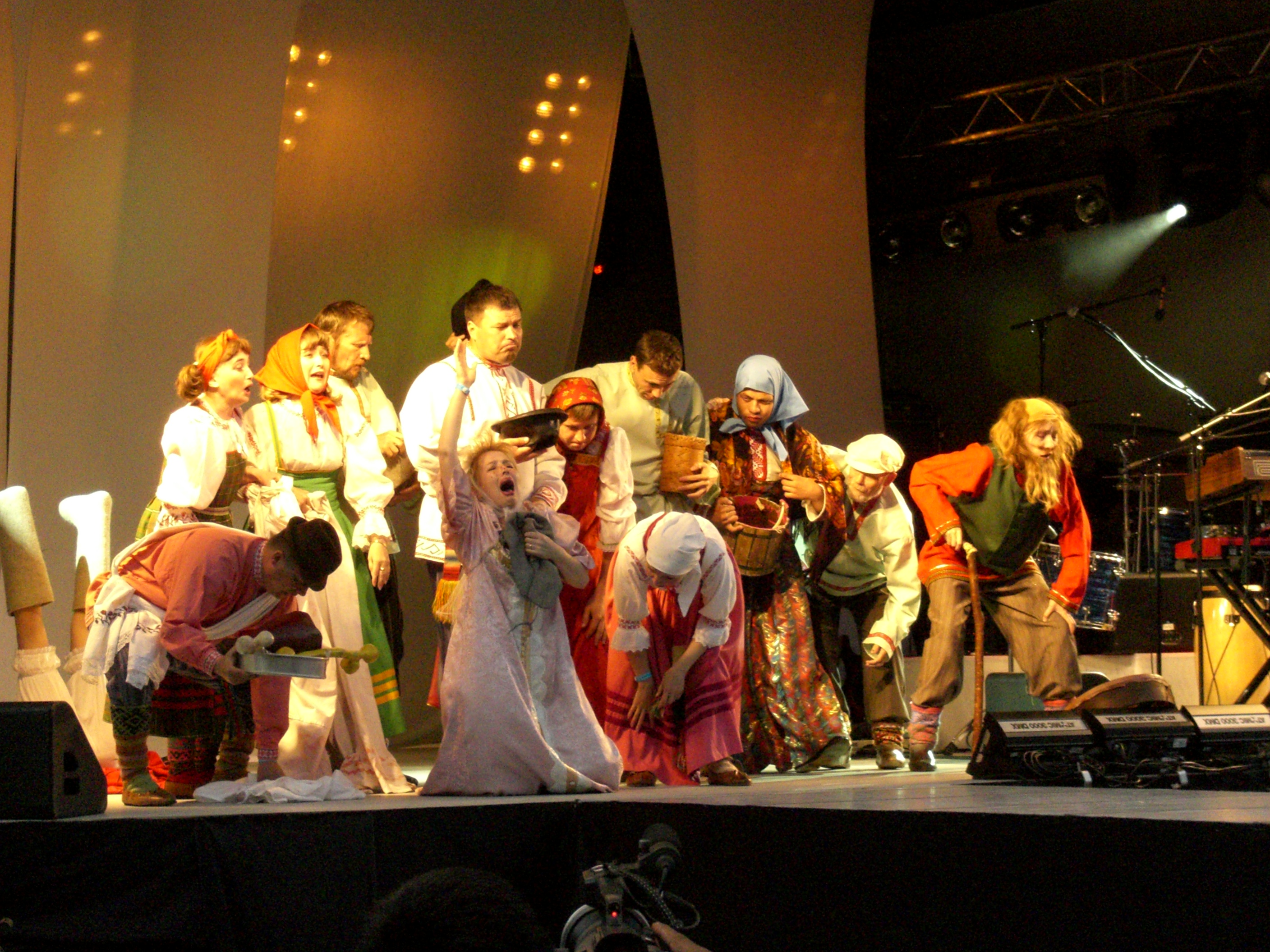 Festival of Riddu Riđđu of natural cultures in Norway, 2007